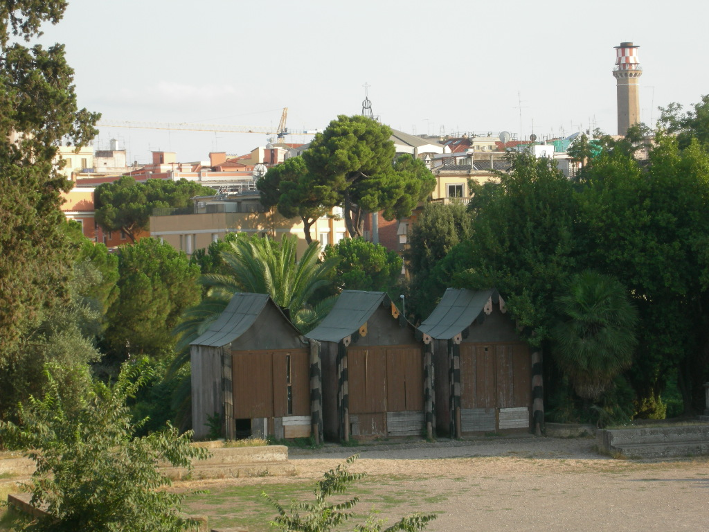 Panorama of the Nomentano Borough and of the Policlinico General Hospital from Villa Torlonia, Rome.